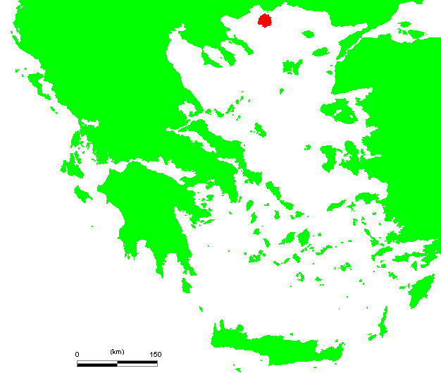 GR Thassos.PNG (Greek island)